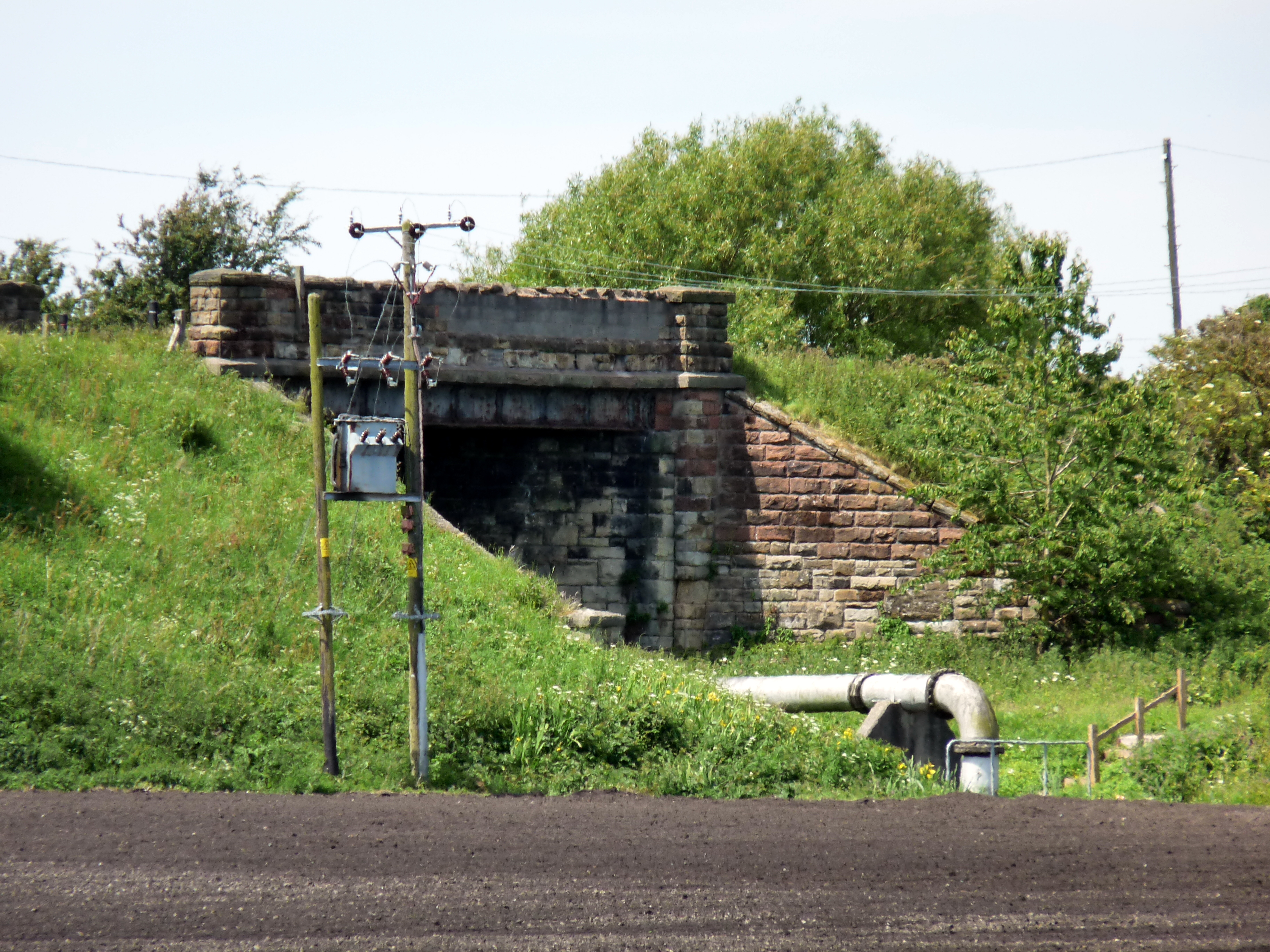 B5243 road bridge on the boundary between Scarisbrick and Halsall, as seen from Turning Lane. Formerly the site of Heathey Lane Halt railway station.